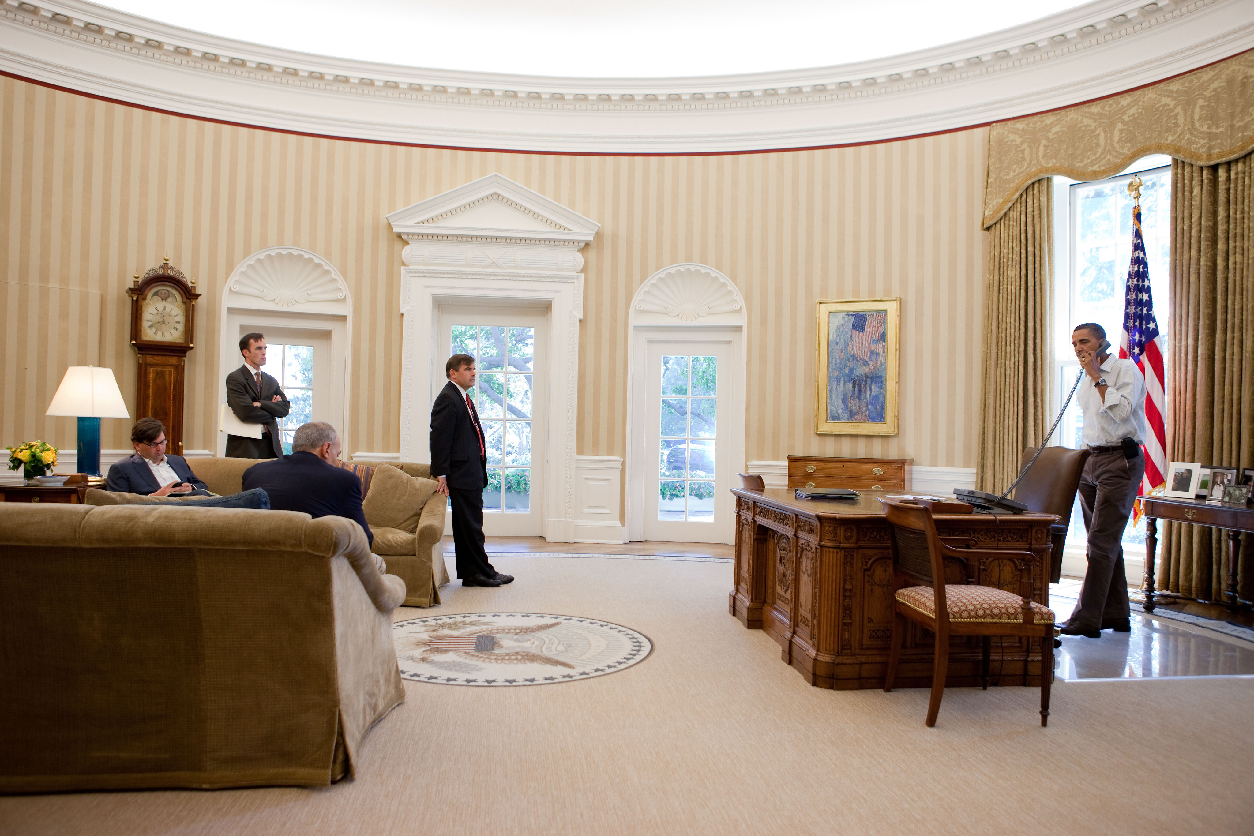 President Barack Obama holds a conference call with House Speaker Nancy Pelosi and Senate Majority Leader Harry Reid, in the Oval Office, Labor Day, Sept. 6, 2010. Staff attending include: House Liaison Dan Turton, Senate Liaison Shawn Maher, Assistant to the President for Legislative Affairs Phil Schiliro, and Deputy Assistant to the President for Economic Policy Jason Furman.